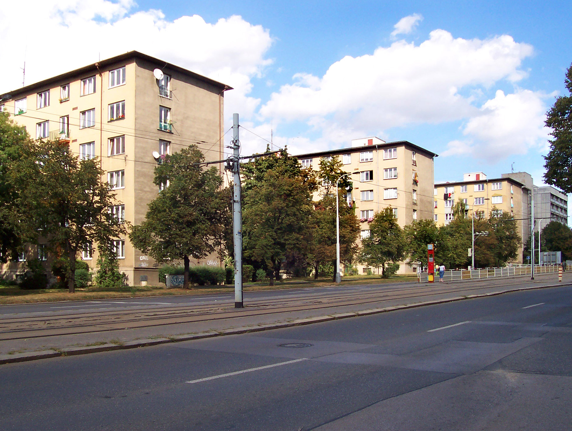 Hloubětín Housing Estate by Poděbradská street in Hloubětín, Prague